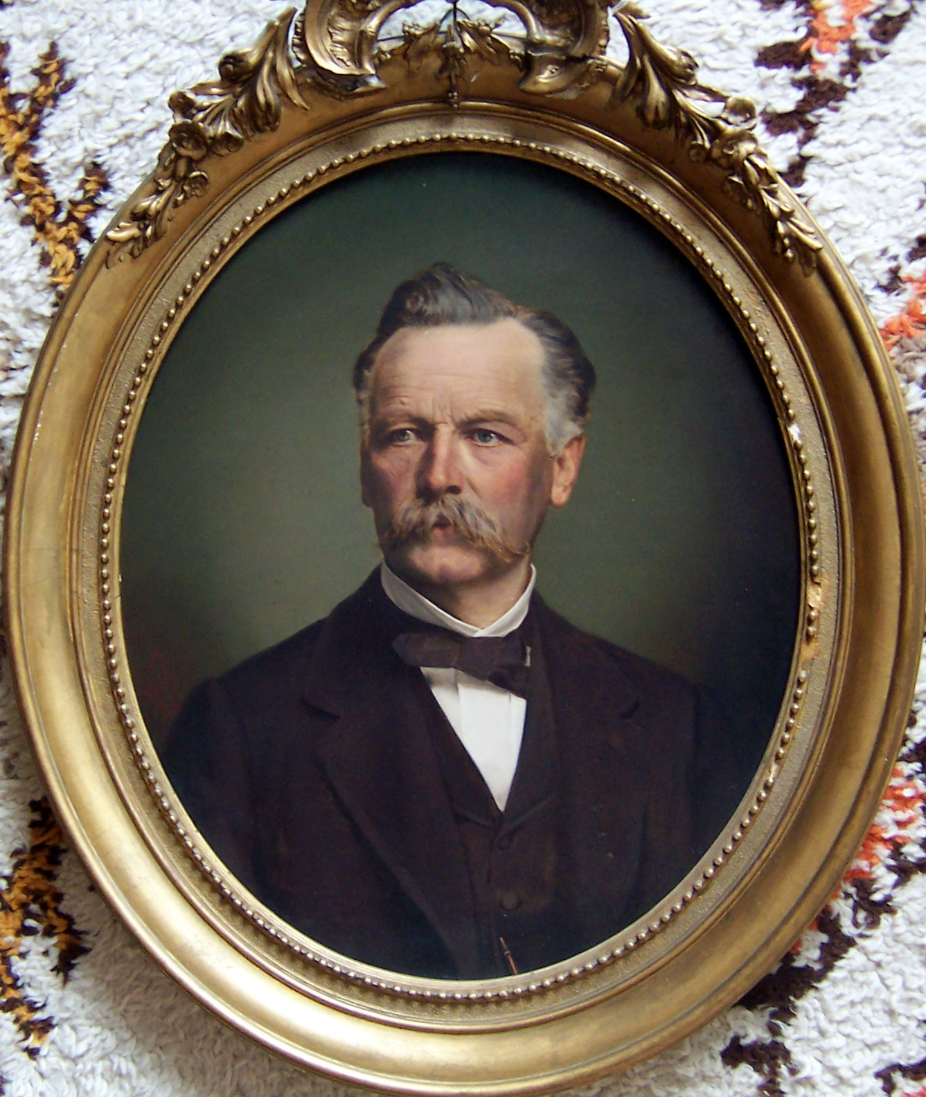 Ferdinand Adolf Naeff-Custer (1809—1899), engineer from Switzerland